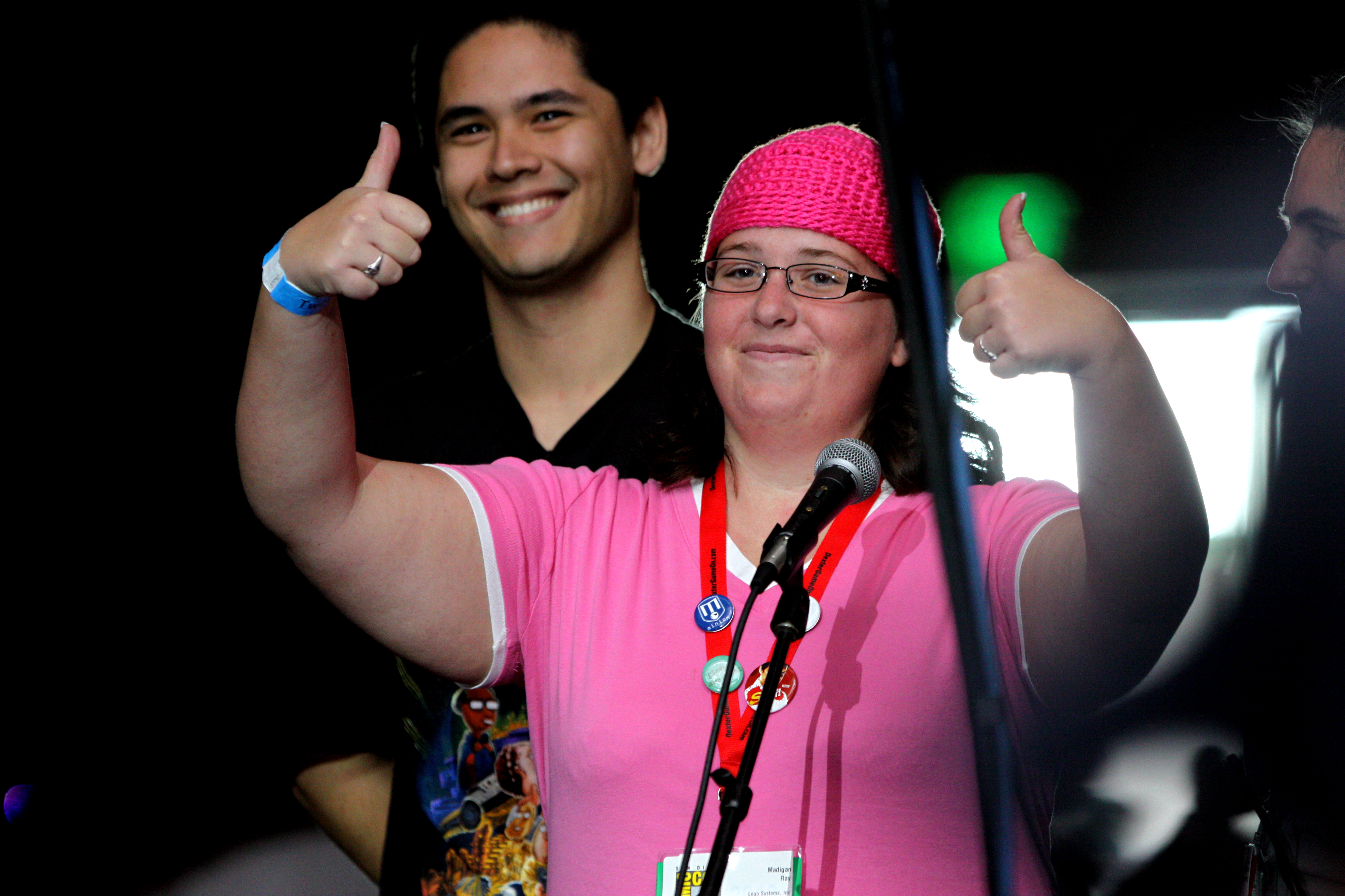 A questioner dressed as Meg Griffin during the Family Guy panel at the 2010 San Diego Comic Con in San Diego, California.